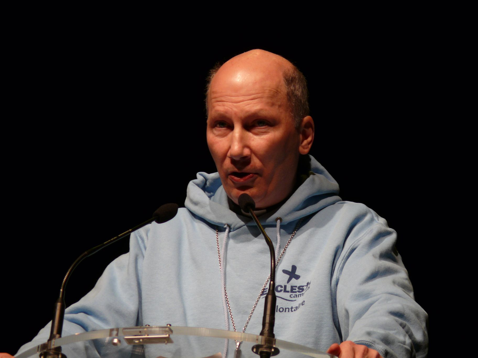 The bishop Pierre d'Ornellas of Rennes at Ecclesia Campus 2012 in Rennes (Ille-et-Vilaine, Bretagne, France).